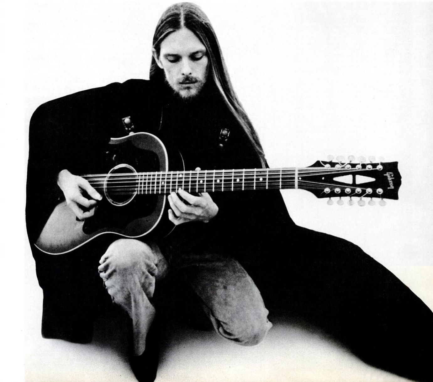 Trade ad for Shawn Phillips's 1971 tour. To better adapt it to his respective Wikipedia article, the ad was cropped and cleaned in a graphics editing program. The original can be viewed at the source below.